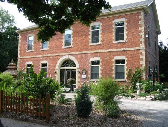 Niagara Public School in Niagara-on-the-Lake. Built in 1859 and in use as a school until 1948, later an apartment building, then a bed-in-breakfast after 2005.